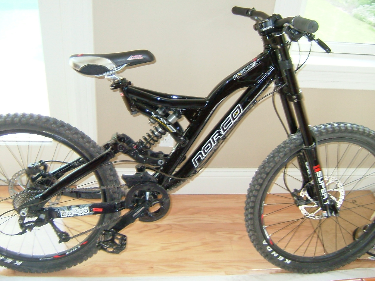 2006 Stock Norco Atomik bike.